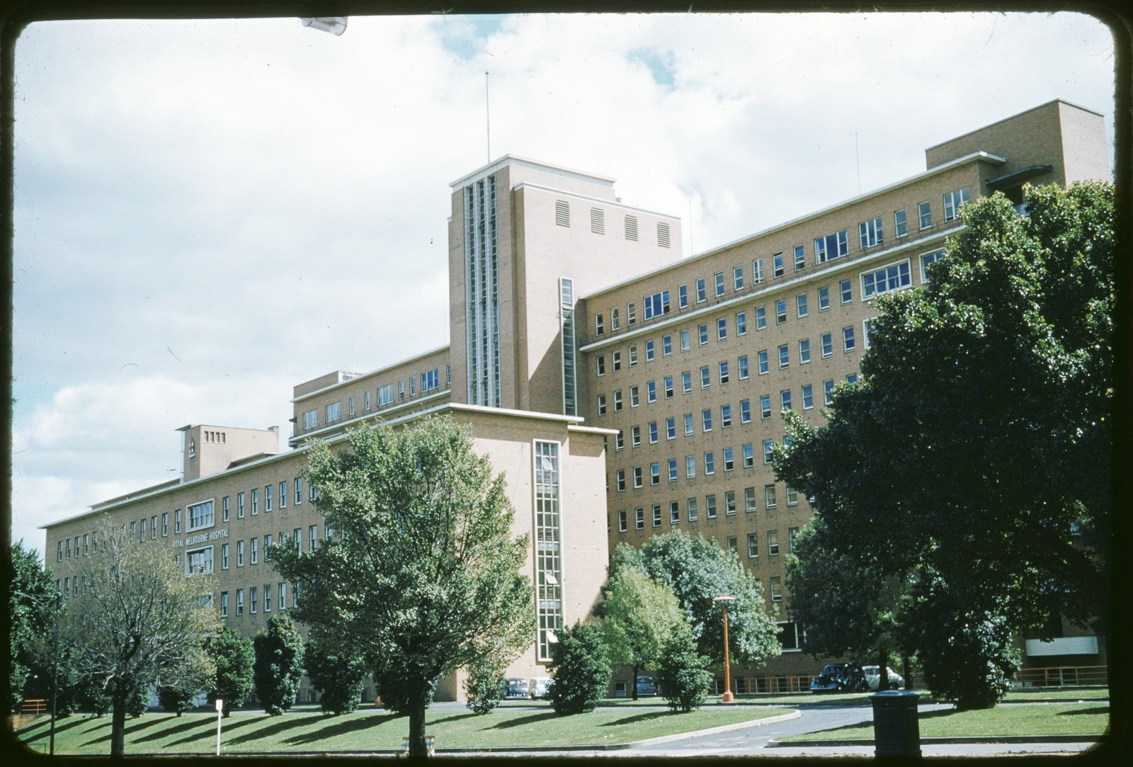 Royal Melbourne Hospital in 1954